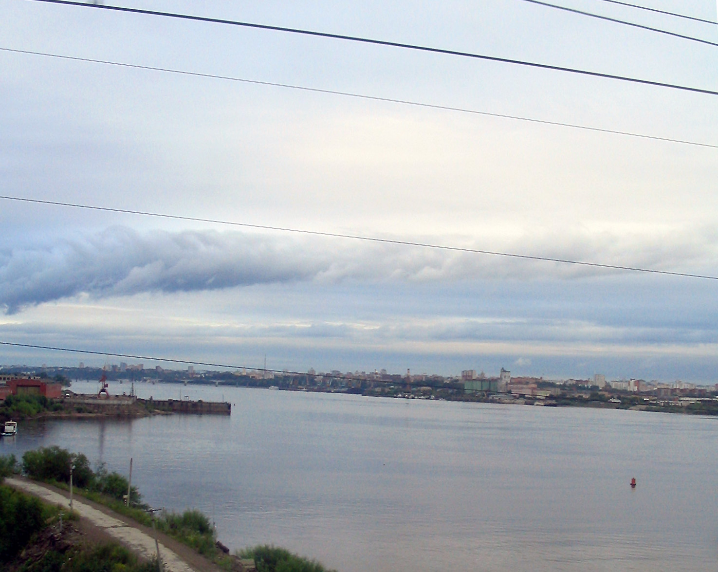 Picture of the Kama River in Russia, taken from trans-Siberian railway. 7/06, by me, released into public domain.